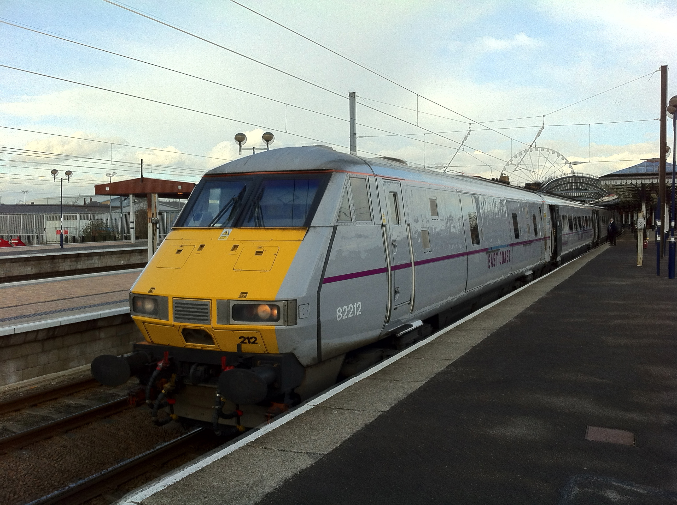 Mark 4 DVT, operated by East Coast seen at York railway station. This is one of the rakes in East Coast's 2011 livery.